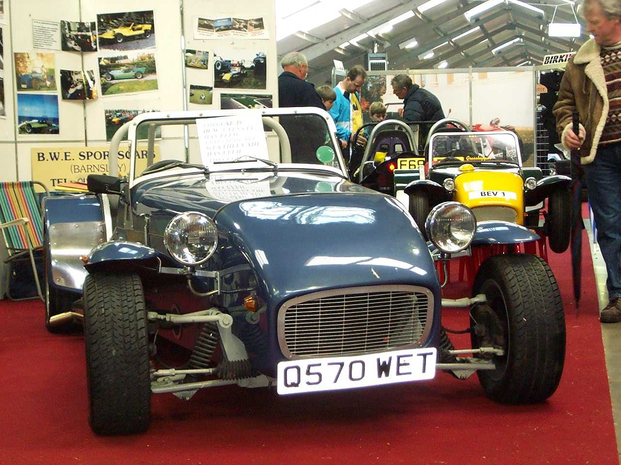 BWE Hornet Demonstrator Car